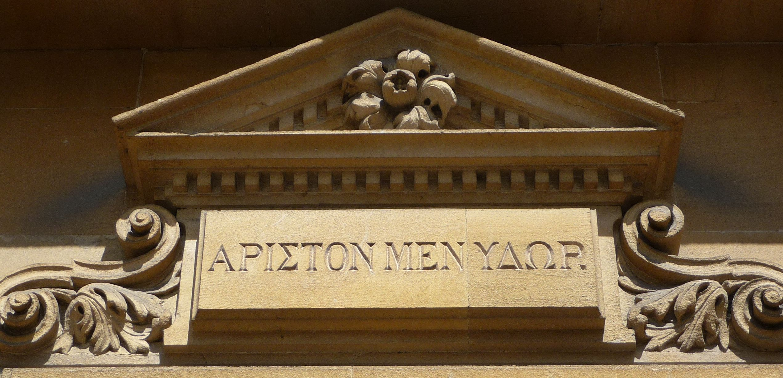 Water is best.